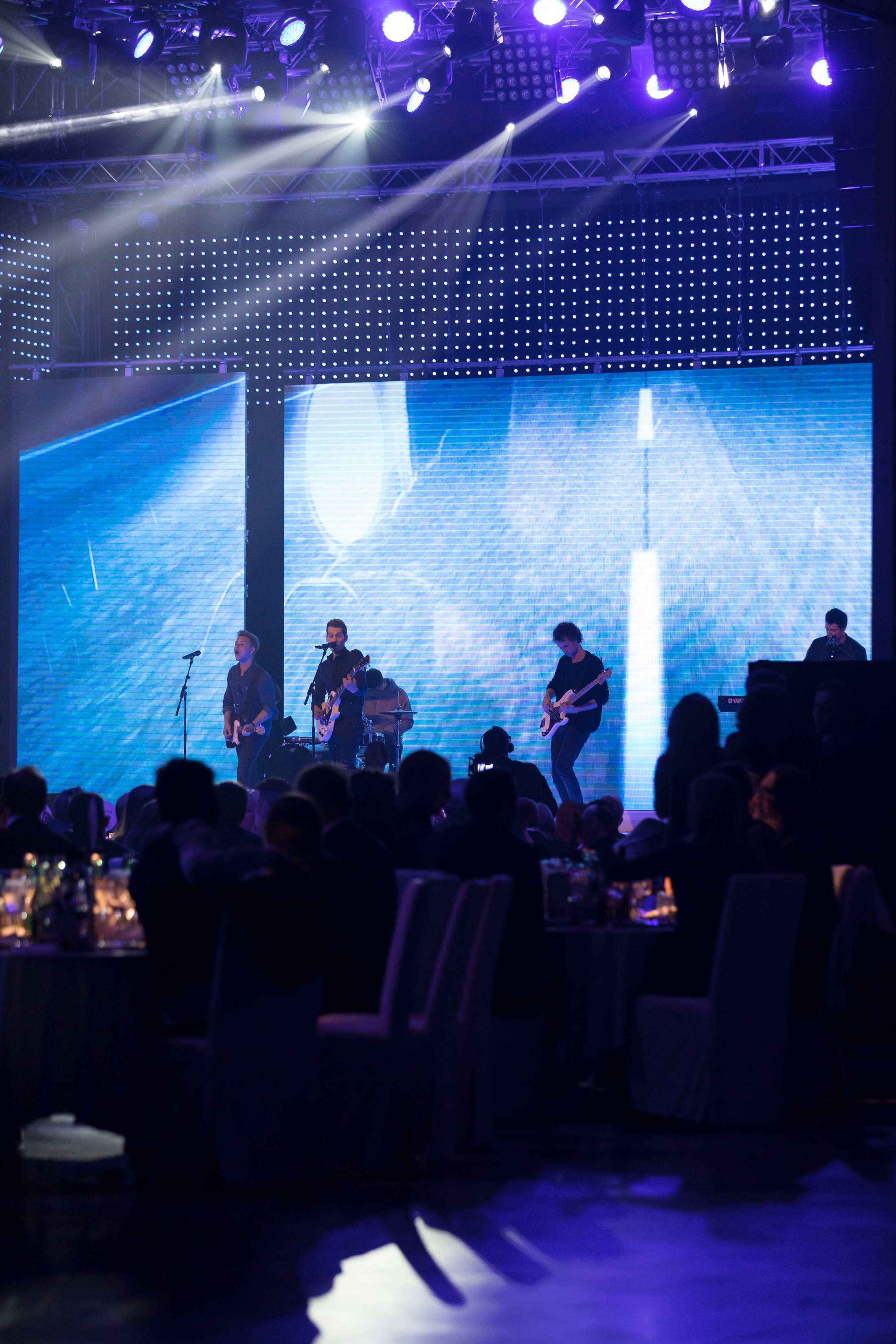 Tagträumer performing at the award show for the Austrian Sports Personalities of the Year 2017, at Marx Halle (Sankt Marx, Vienna, Austria).